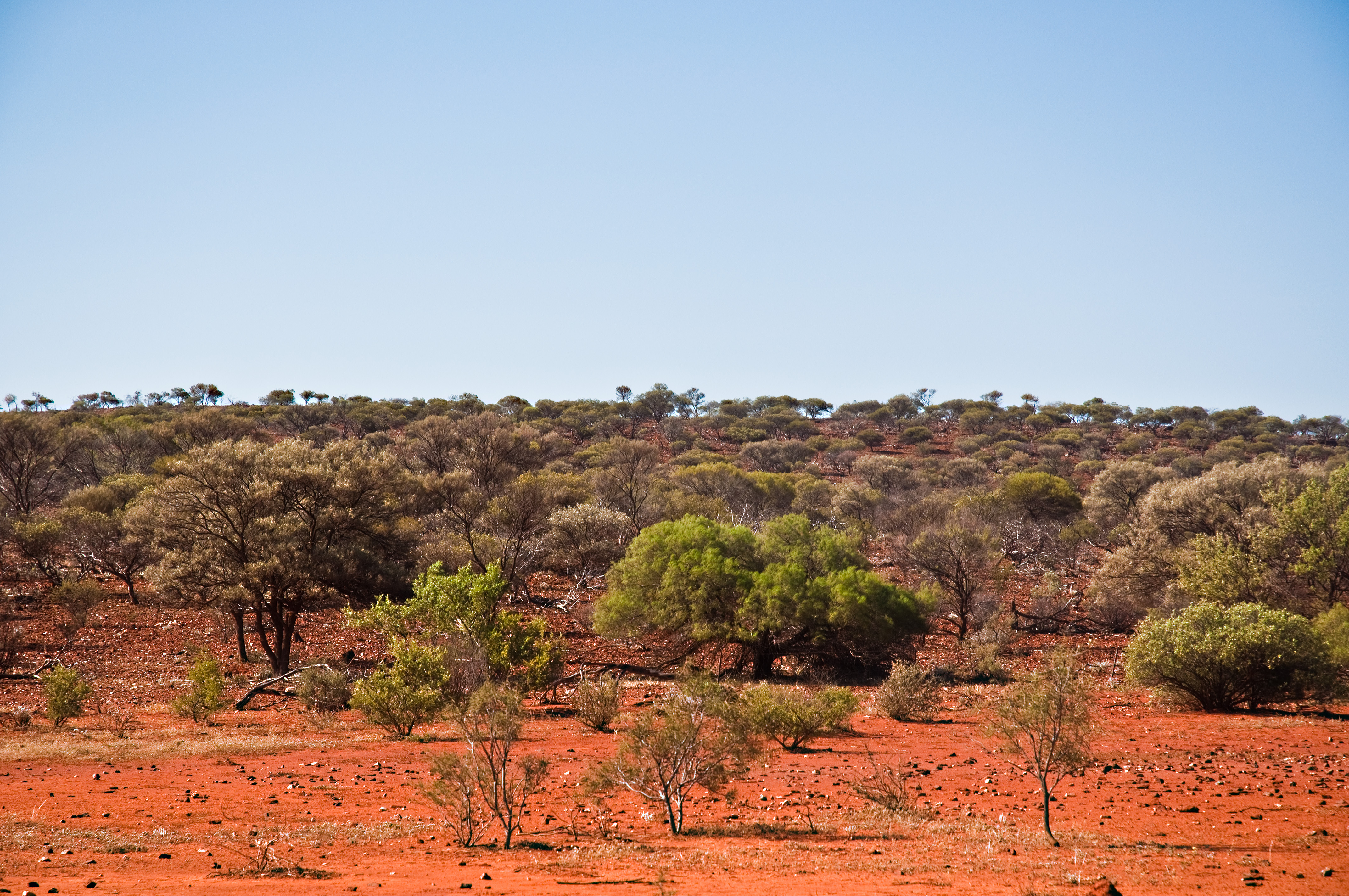 Gone Driveabout 17, Bush at Yuin Station, Western Australia, 24 Oct. 2010